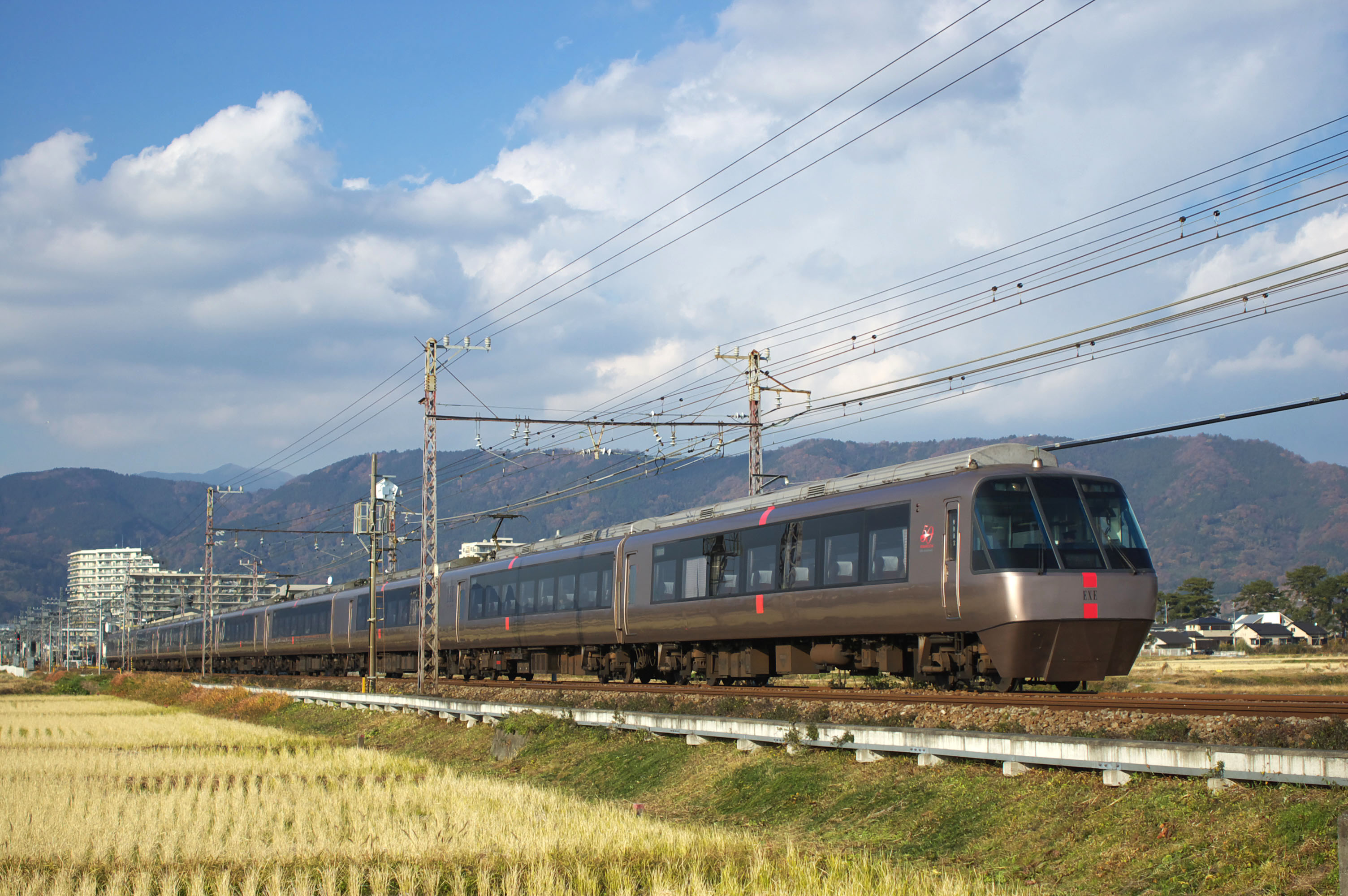 An Odakyu Electric Railway 30000 series "EXE" Romancecar train